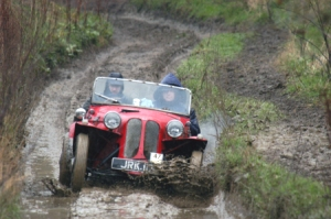 Mk1 Dellow doing what comes naturally